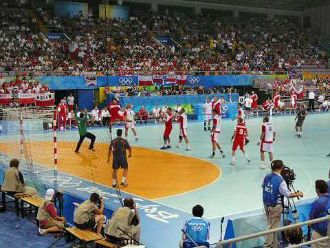 Poland-Iceland (handball)-Olympic Games Beijing 2008